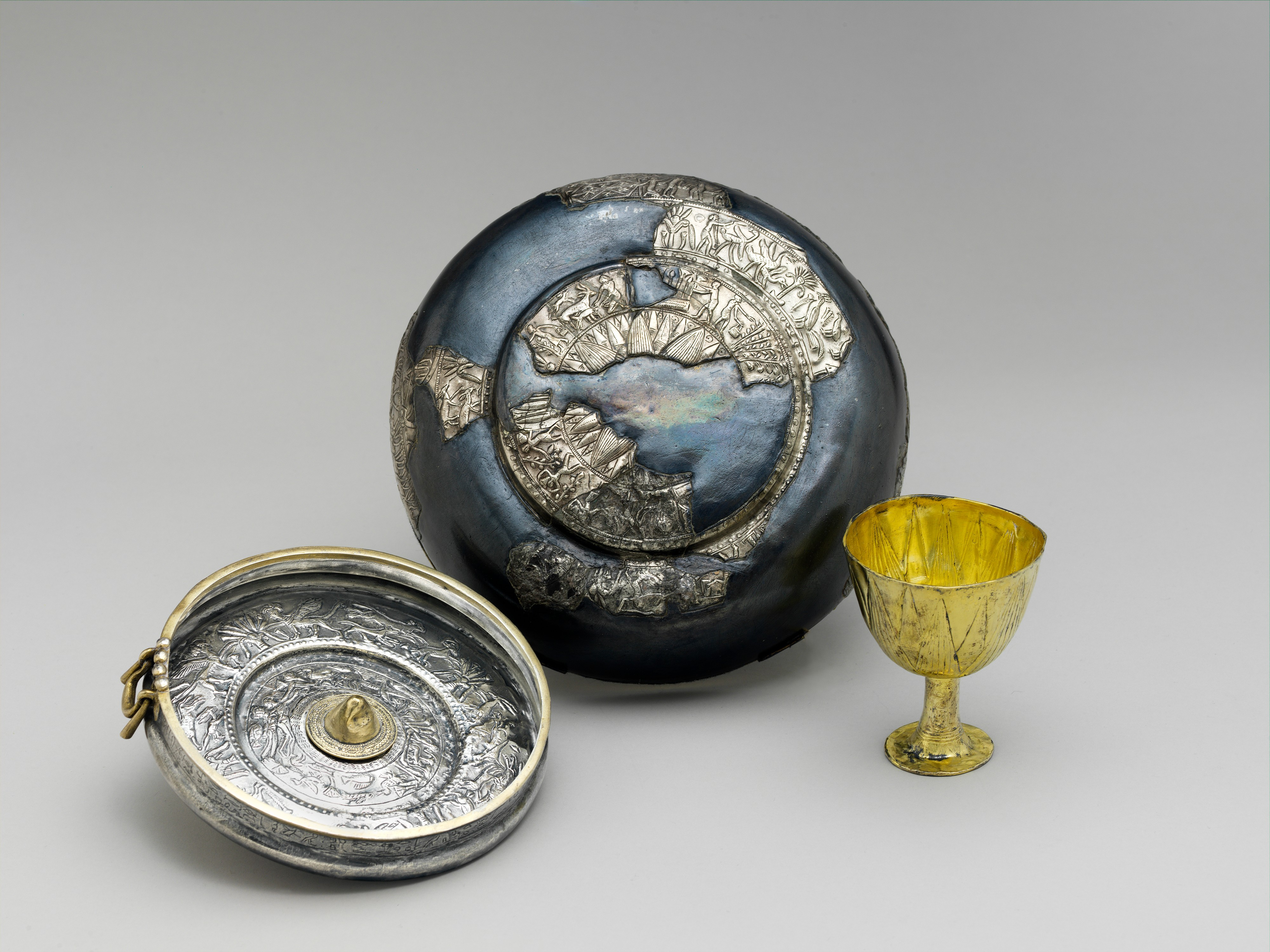 Bowl, marsh scenes